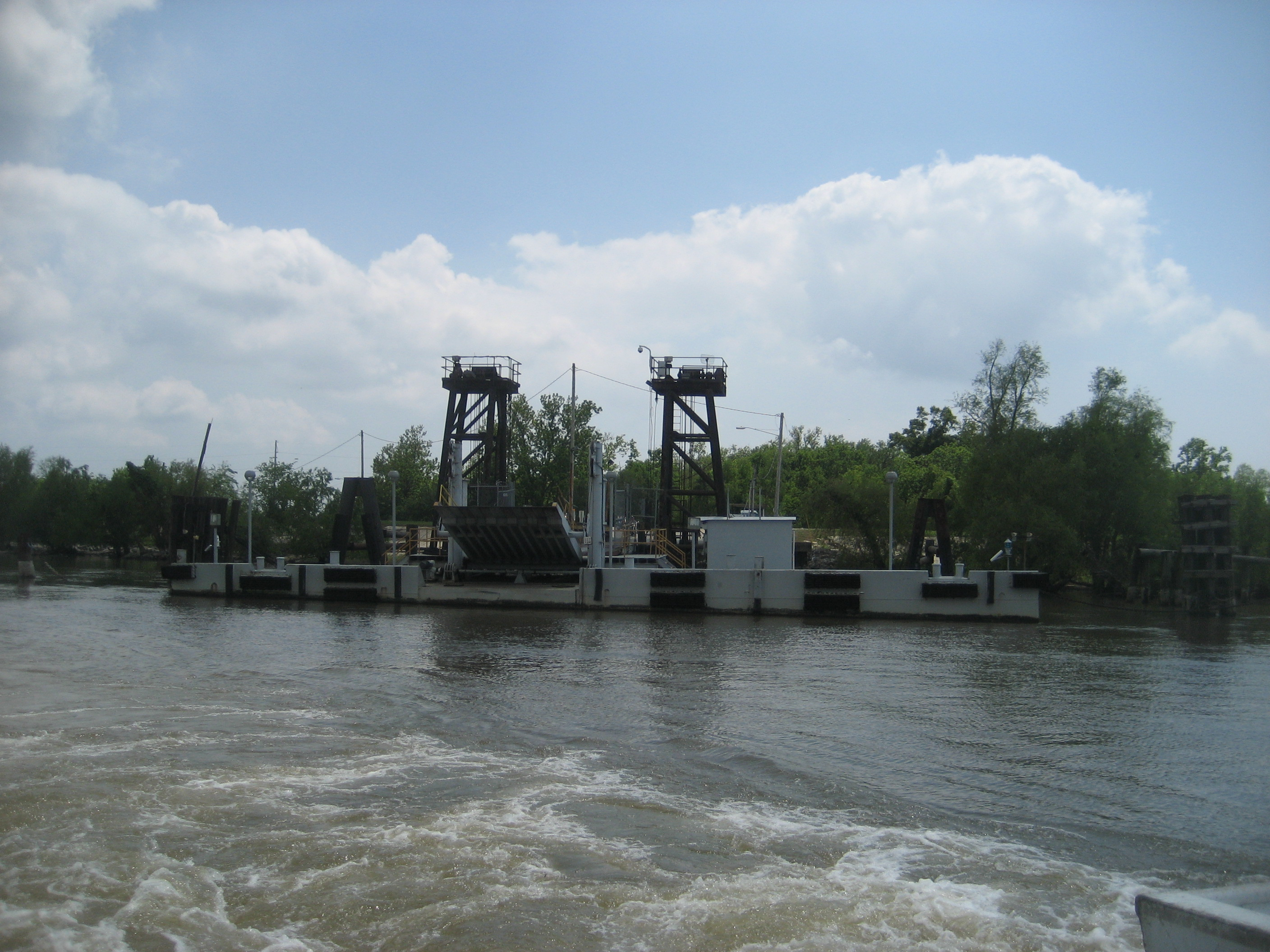 West Pointe à la Hache Ferry landing, seen from ferry in the Mississippi.